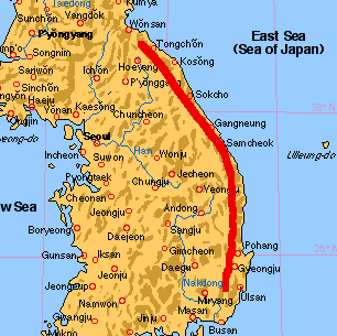 South Korea Taebaek Mountains.